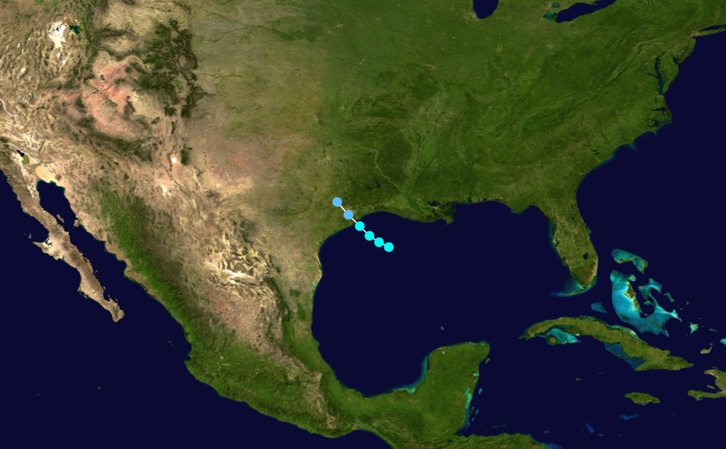 1899 Atlantic tropical storm 1 track. Uses the color scheme from the Saffir-Simpson Hurricane Scale.